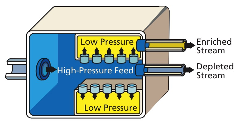 Infographic from 2018-2019 Information Digest, NUREG 1350, Volume 30. Published in August 2018. For More Information go to: 2018-2019 Information Digest Visit the Nuclear Regulatory Commission's website at . Photo Usage Guidelines: Privacy Policy: . For additional information, or to comment on this photo contact: OPA Resource .